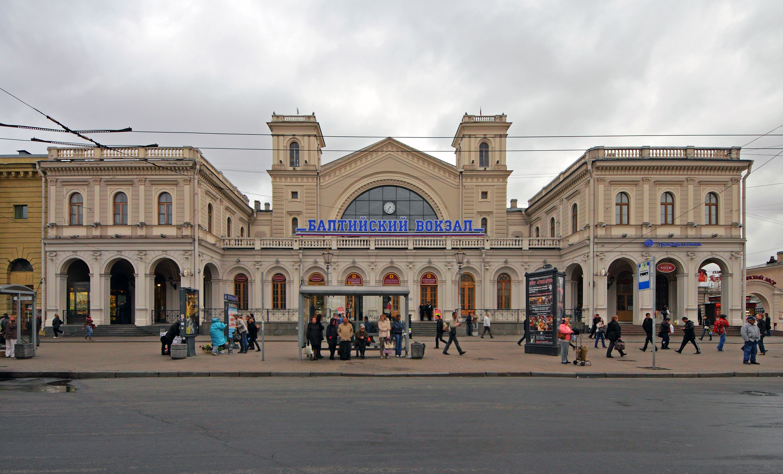 Saint Petersburg, Russia. Main building of the Baltic railway station.